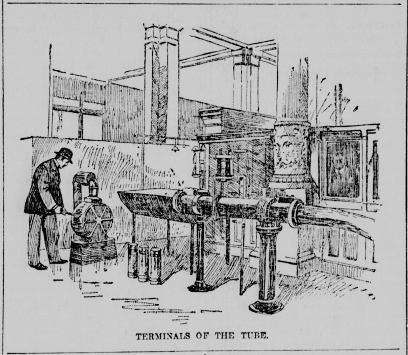 Retrieved from Chronicling America at the Library of Congress